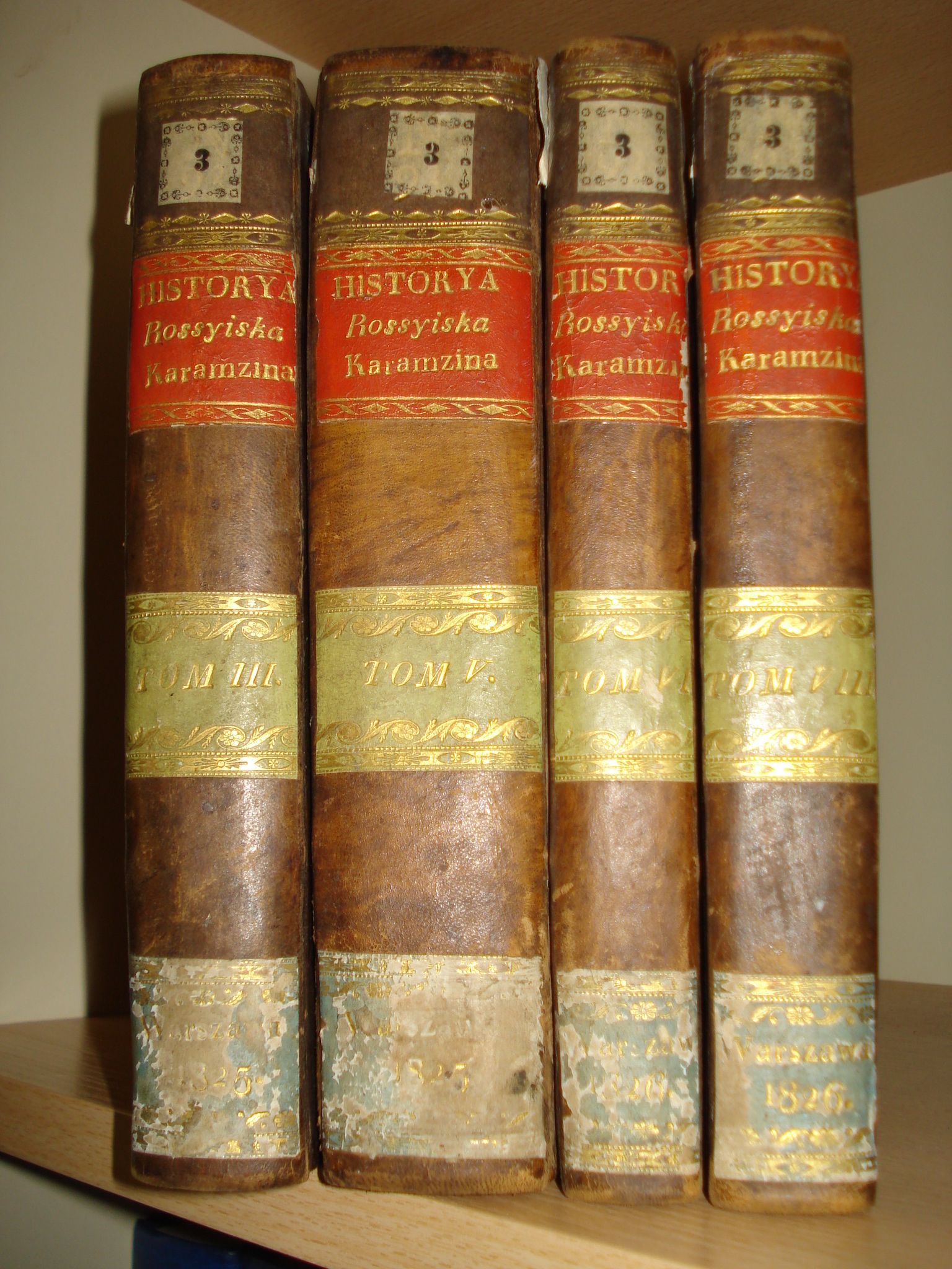 First Polish edition of the History of the Russian State by Nikolay Karamzin (vol. 3, 5, 7, 8; Warsaw, 1825)